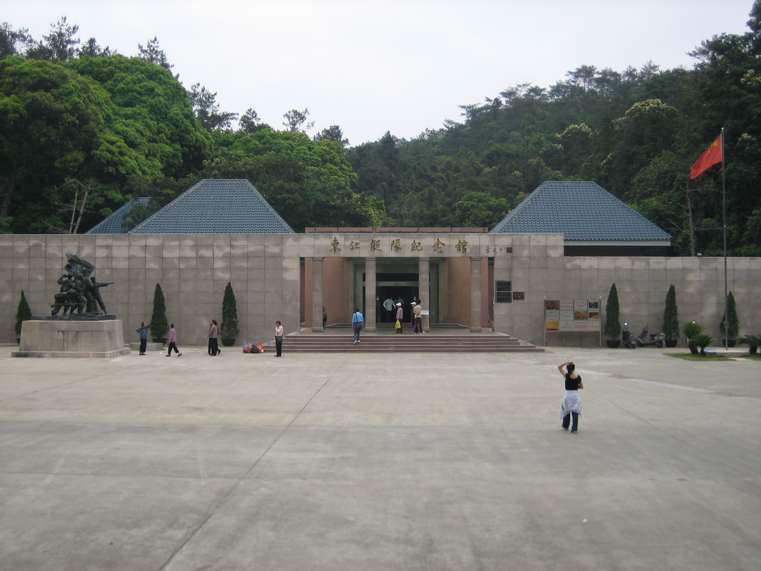 Memorial Hall of DongZong,Guangdong